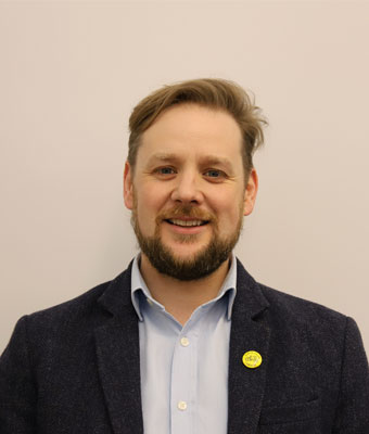 Irish politician Patrick Costello of the Green Party, taken in 2020.